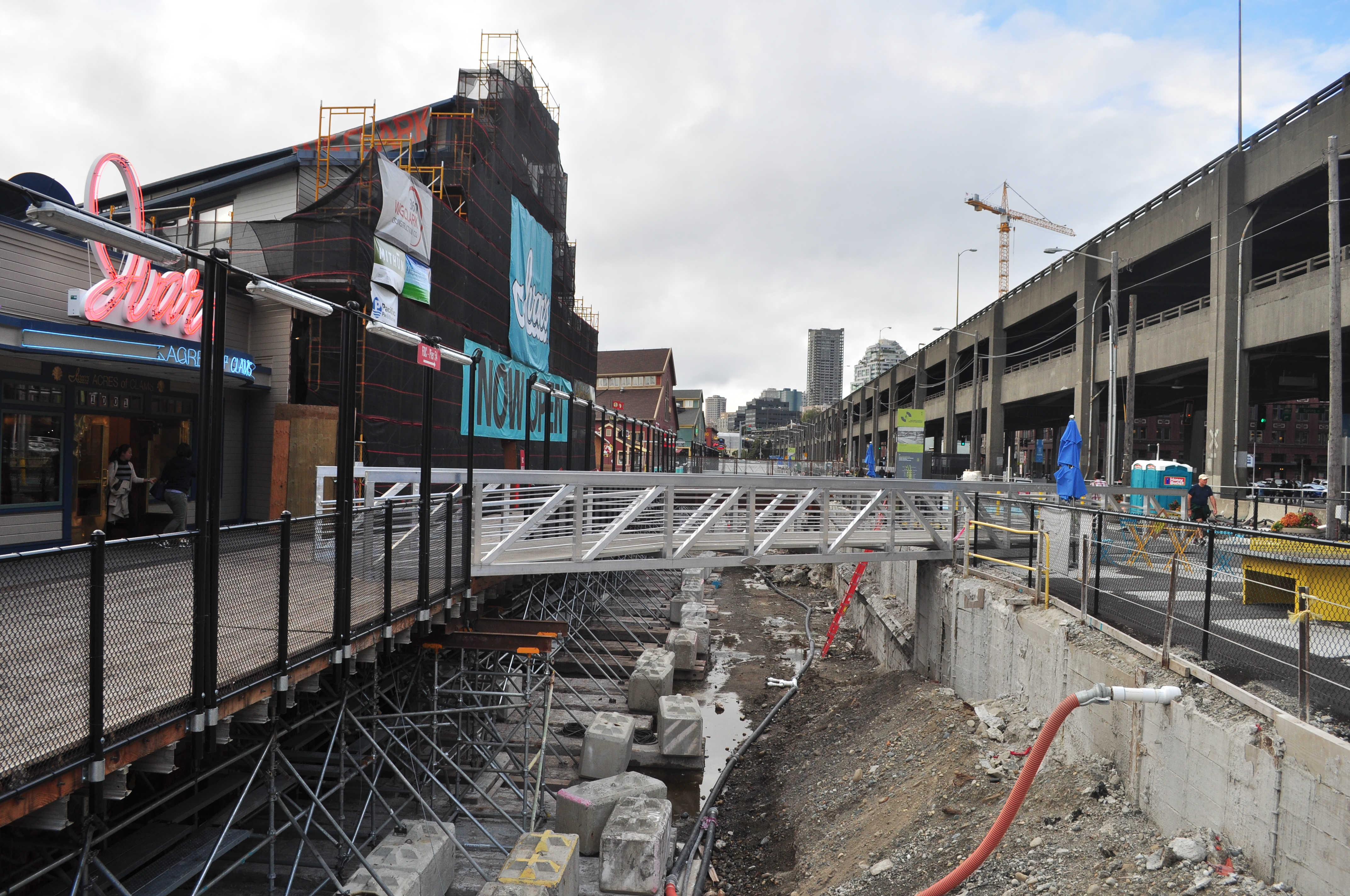 Ivar's Acres of Clams during 2015 replacement of Alaskan Way Seawall, Seattle, Washington, U.S.